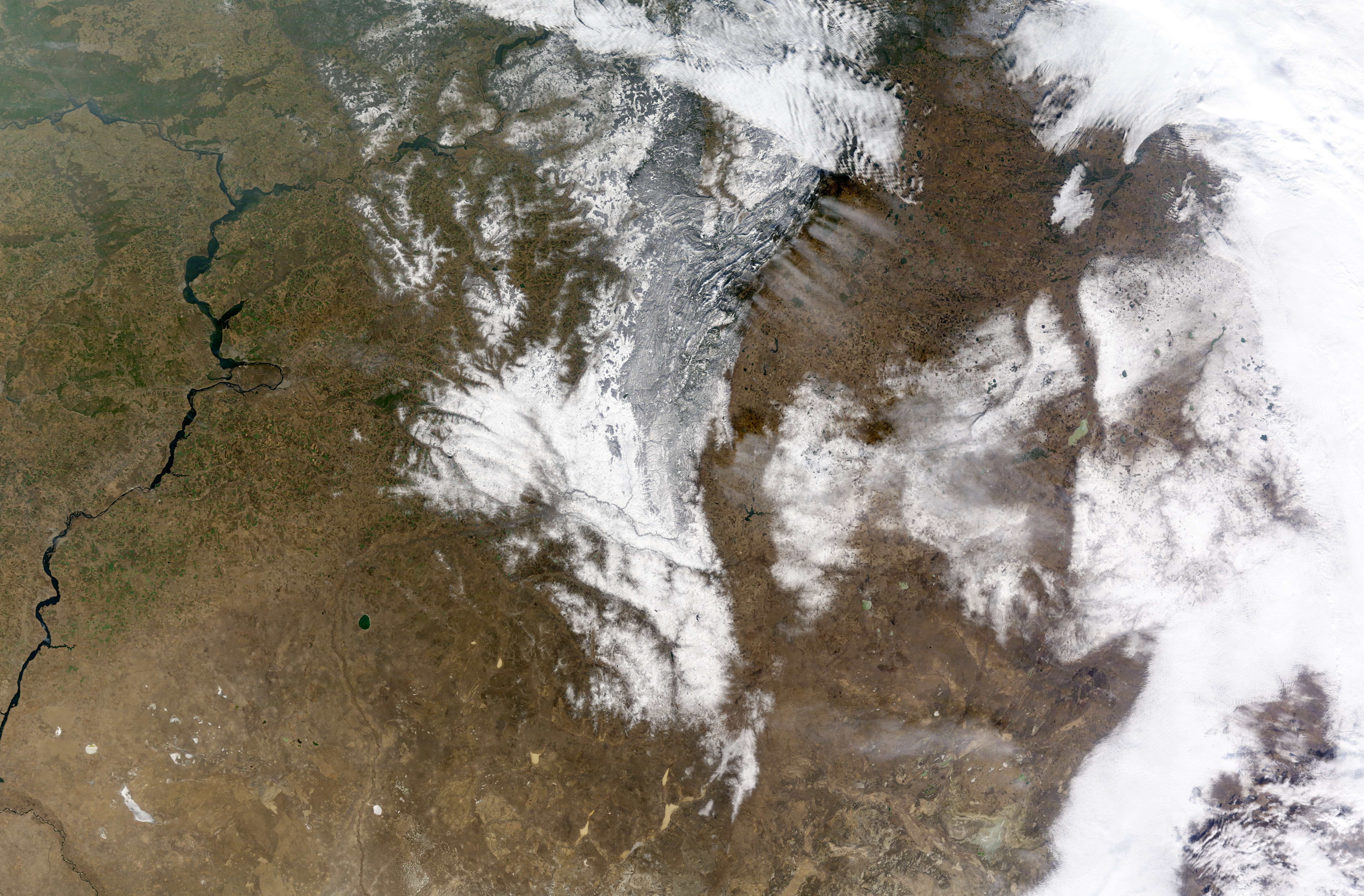 LEE CLOUDS IN RUSSIA'S URAL MOUNTAINS